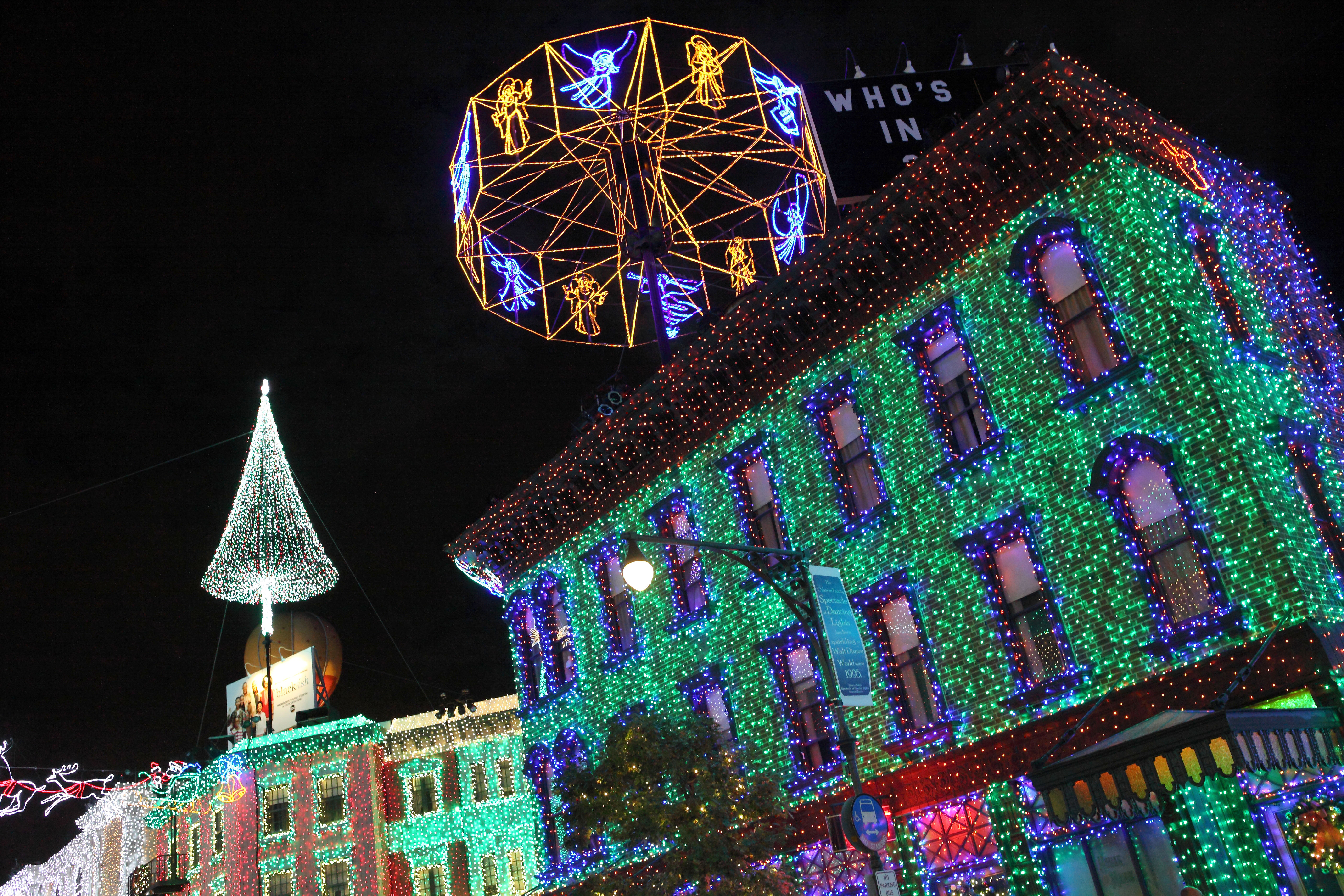 The Osborne Family Spectacle of Dancing Lights 2014 at Disney's Hollywood Studios.